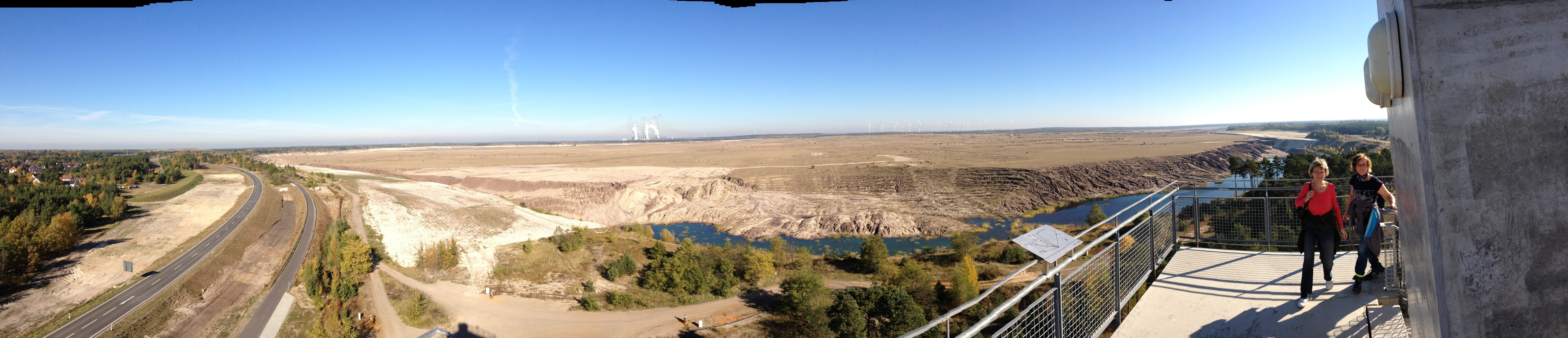 Land rehabilitation, Cottbus, Brandenburg, Germany